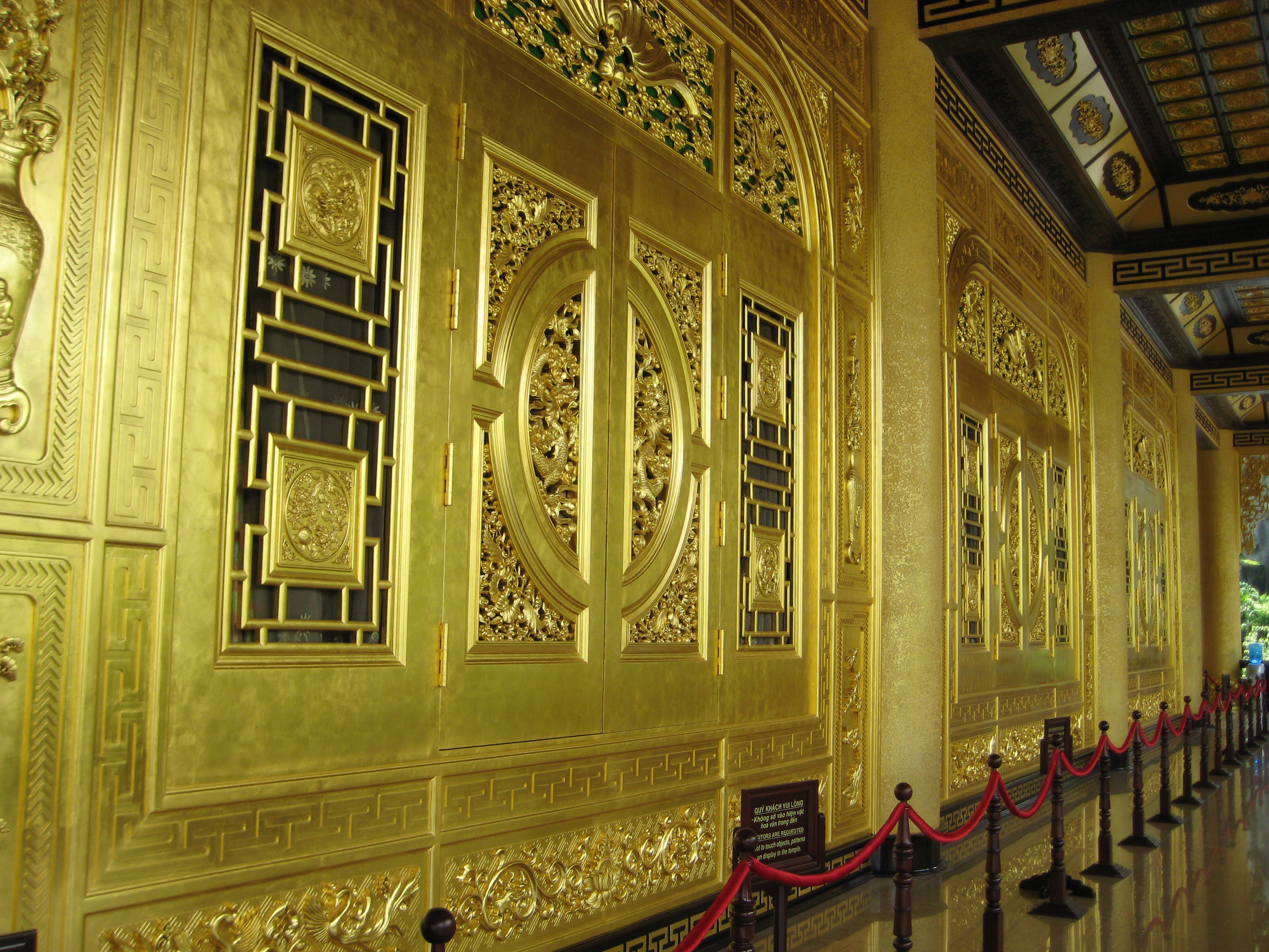 Temple side door of Dai Nam Quoc Tu, Binh Duong, Vietnam